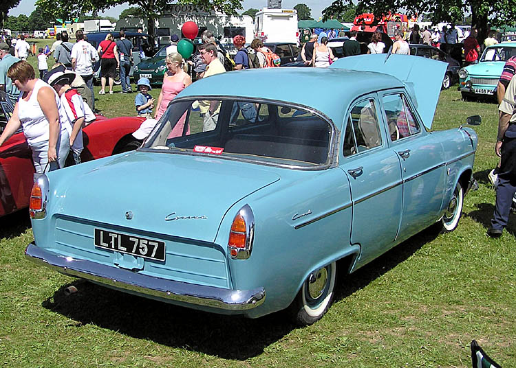 Ford Consul Mark II at Bristol Car Show, The Downs, Bristol, England. Approximate date 1957.